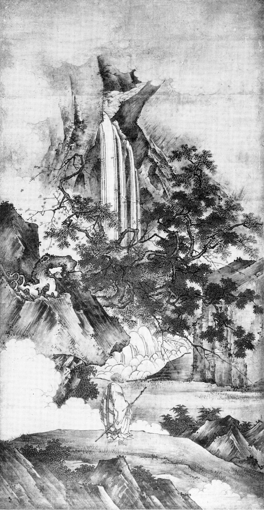 Waterfall by Motonobu